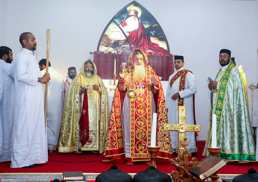 Holy Mass Celebration in Malankara Orthodox Syrian Church